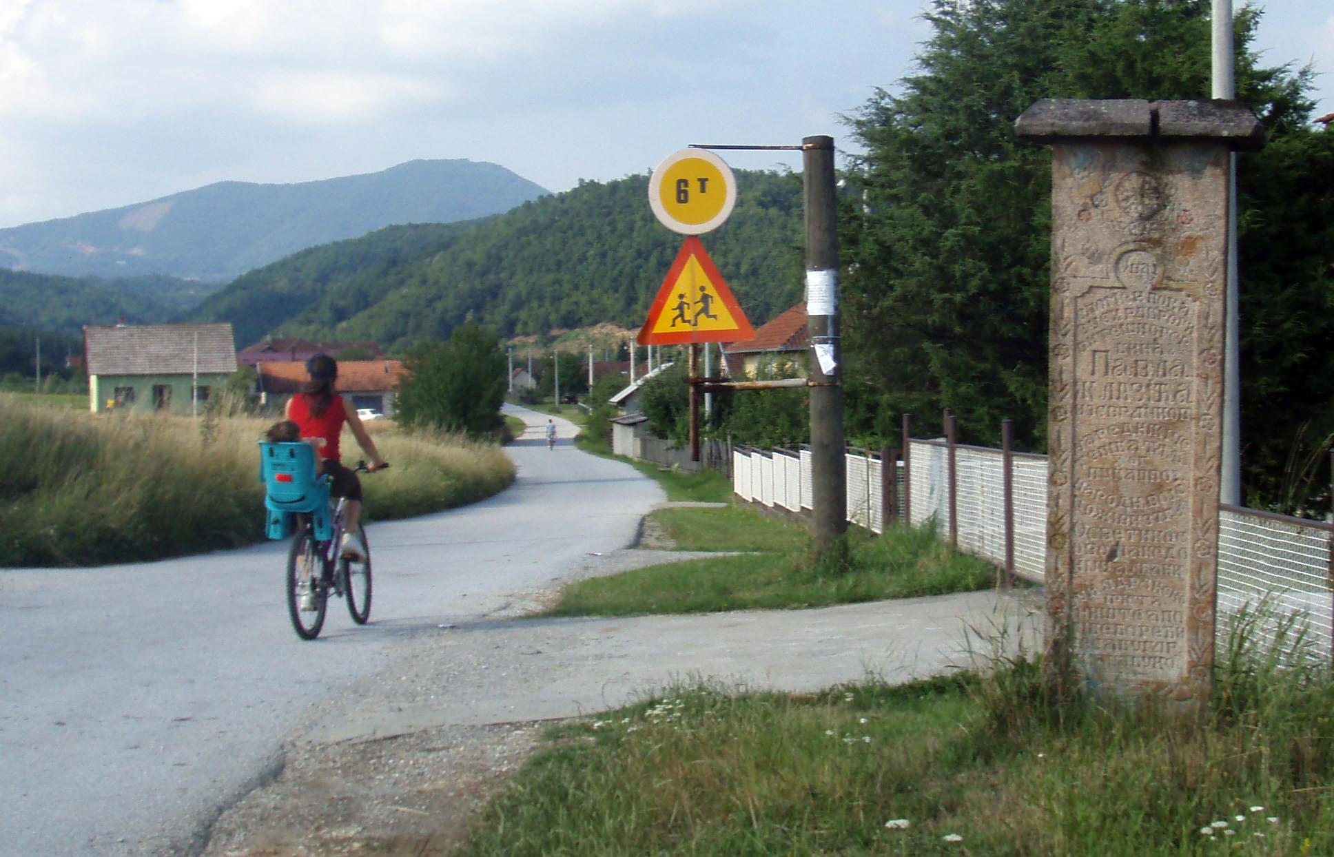 Svrackovci village in Serbia, near Gornji Milanovac